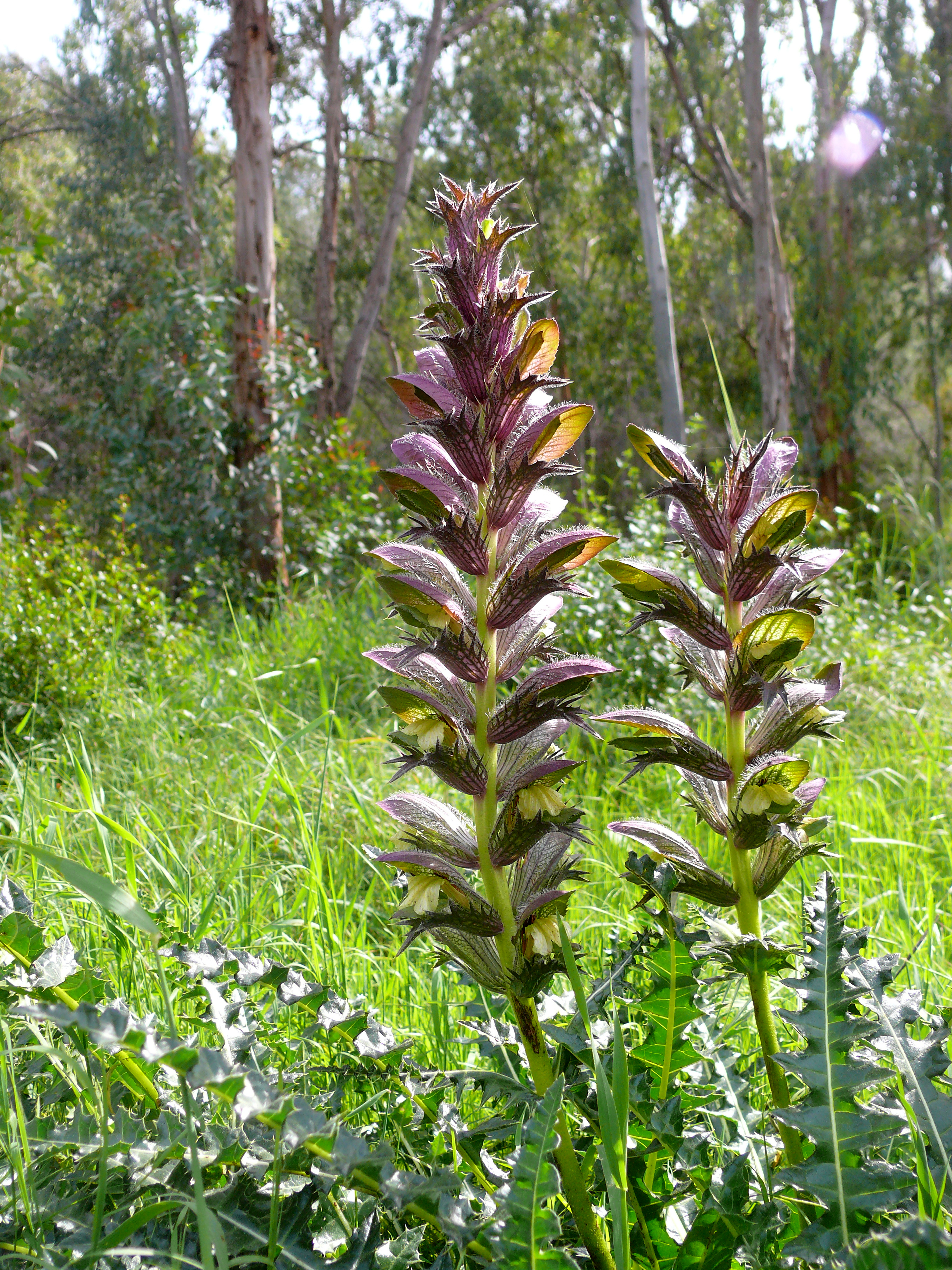 Acanthus syriacus